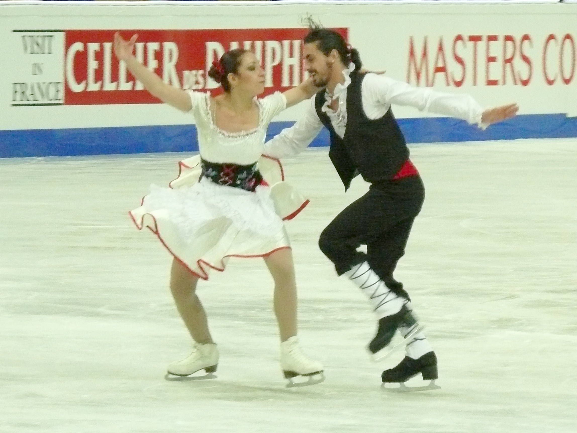 Federica Faiella and Massimo Scali (ITA) at their original dance at the World Championships in Figure Skating 2008 in Gothenborg (SWE) (OD - Folk, Country)